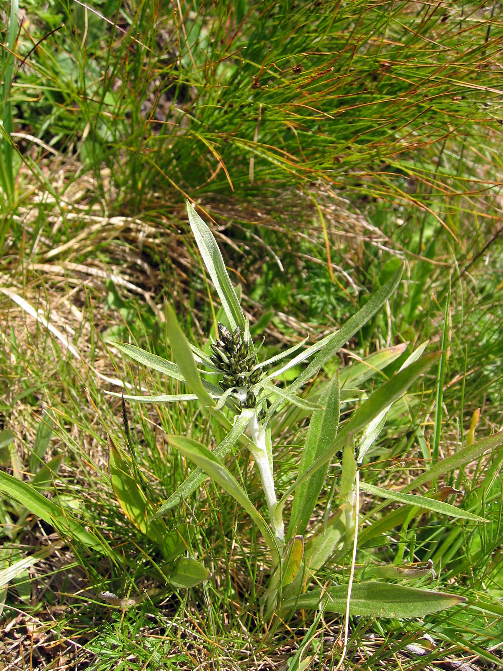 Gnaphalium norvegicum, Carnic Alps, Austria